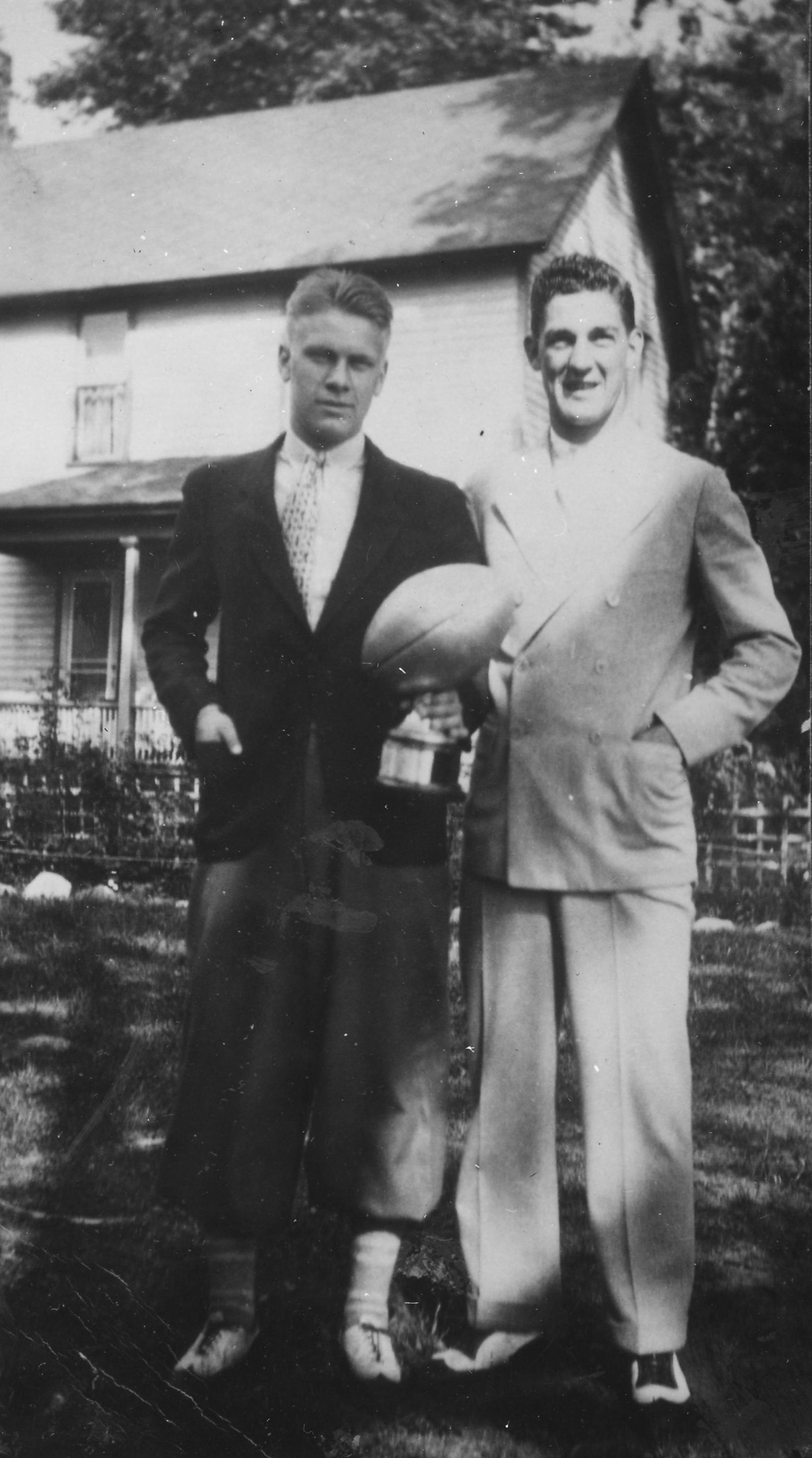 Gerald R. Ford, Jr., holds the trophy he received at the best freshman in spring practice while standing with University of Michigan football teammate Herman Everhardus.